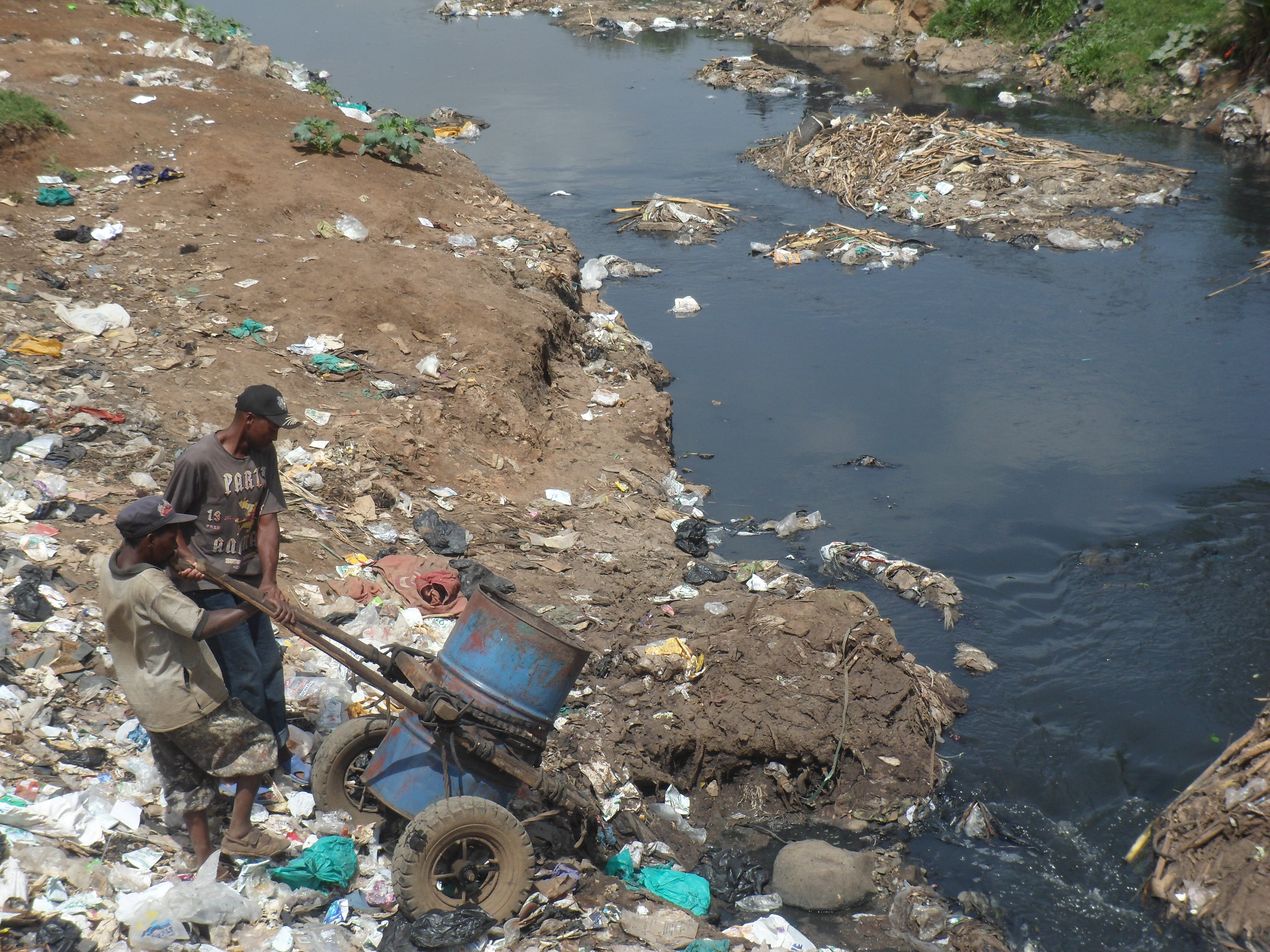 Kenya - Manual Pit Emptying in Korogocho